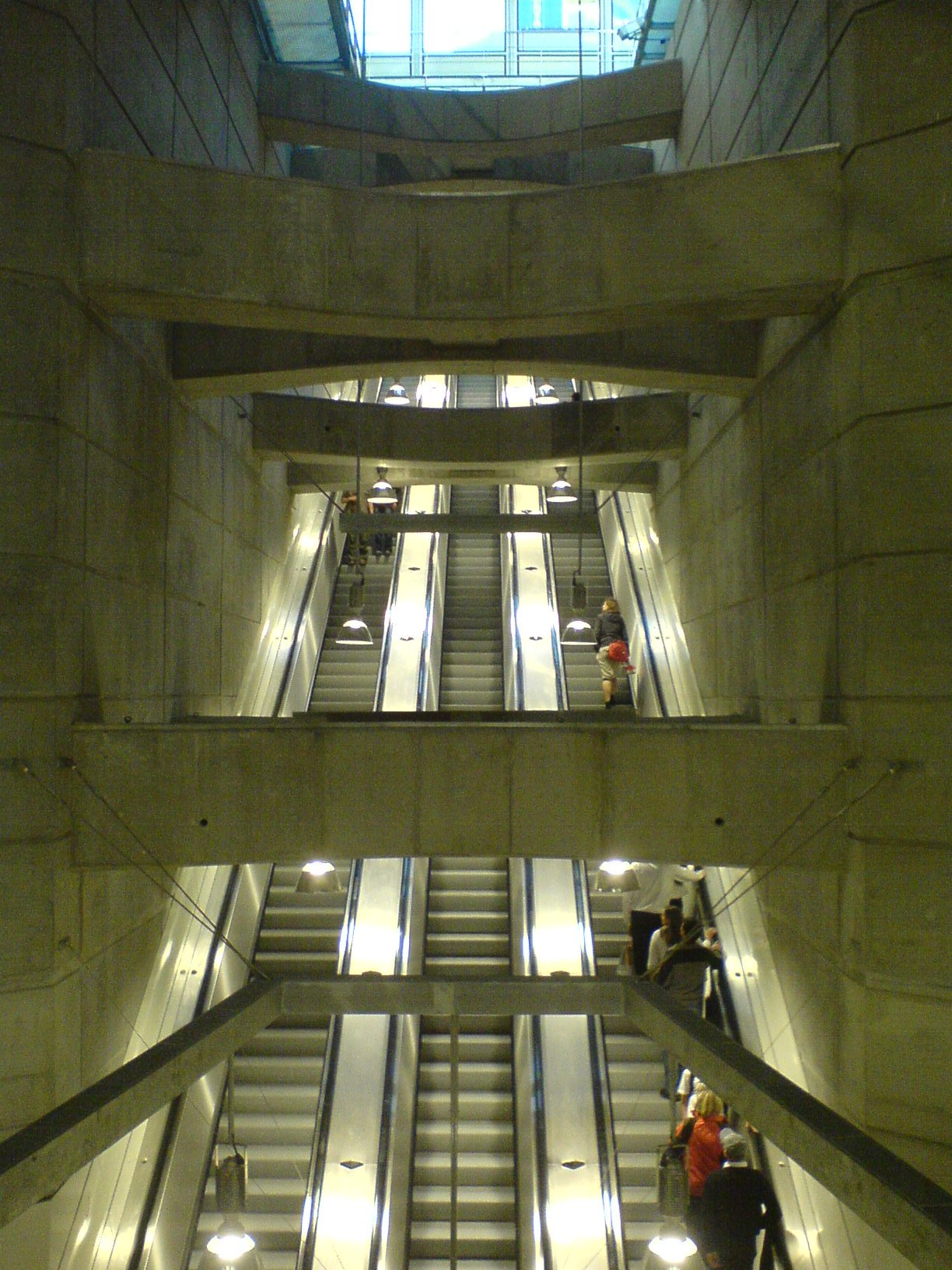 Escalator in the Vienna Underground Station Schottenring